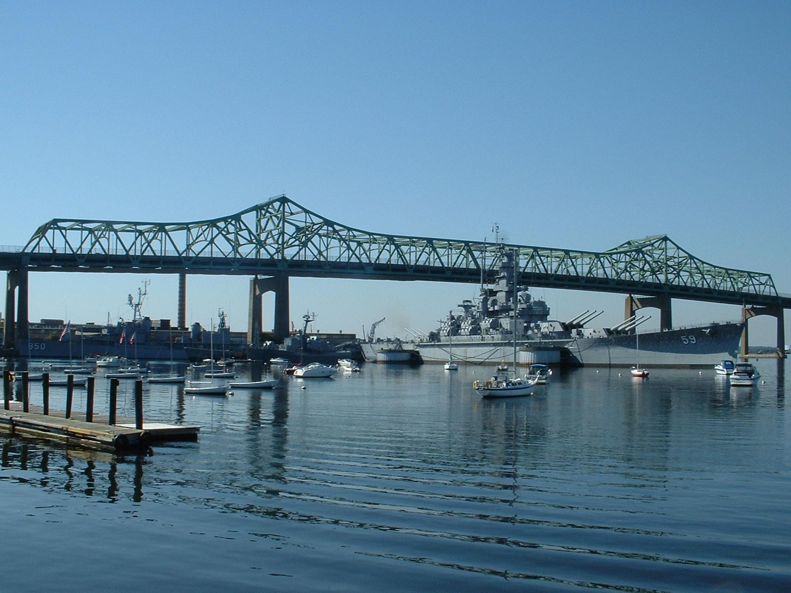 Battleship Cove, including the USS Joseph P. Kennedy DD-850, the Soviet missile corvette Hiddensee, the USS Lionfish SS-298 and the USS Massachusetts BB-59, below the Braga Memorial Bridge, Fall River, Mass.